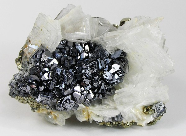 Baryte, Galena, Pyrite Locality: Huaron Mining District, San Jose de Huayllay District, Cerro de Pasco, Daniel Alcides Carrión Province, Pasco Department, Peru (Locality at ) Size: 5.8 x 4.8 x 4.4 cm. A stunningly pretty specimen of translucent, bladed baryte crystals framing a field of shockingly lustrous, wonderfully hoppered crystals of galena. The galenas and barytes sit on a base of golden pyrite, which adds a pretty color accent around the edges.